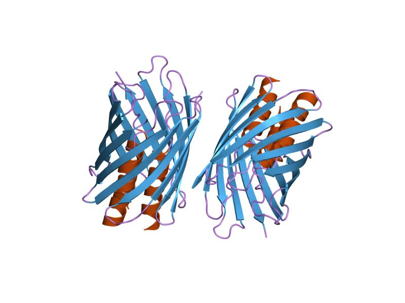 Cartoon representation of the molecular structure of protein registered with 2gr8 code.